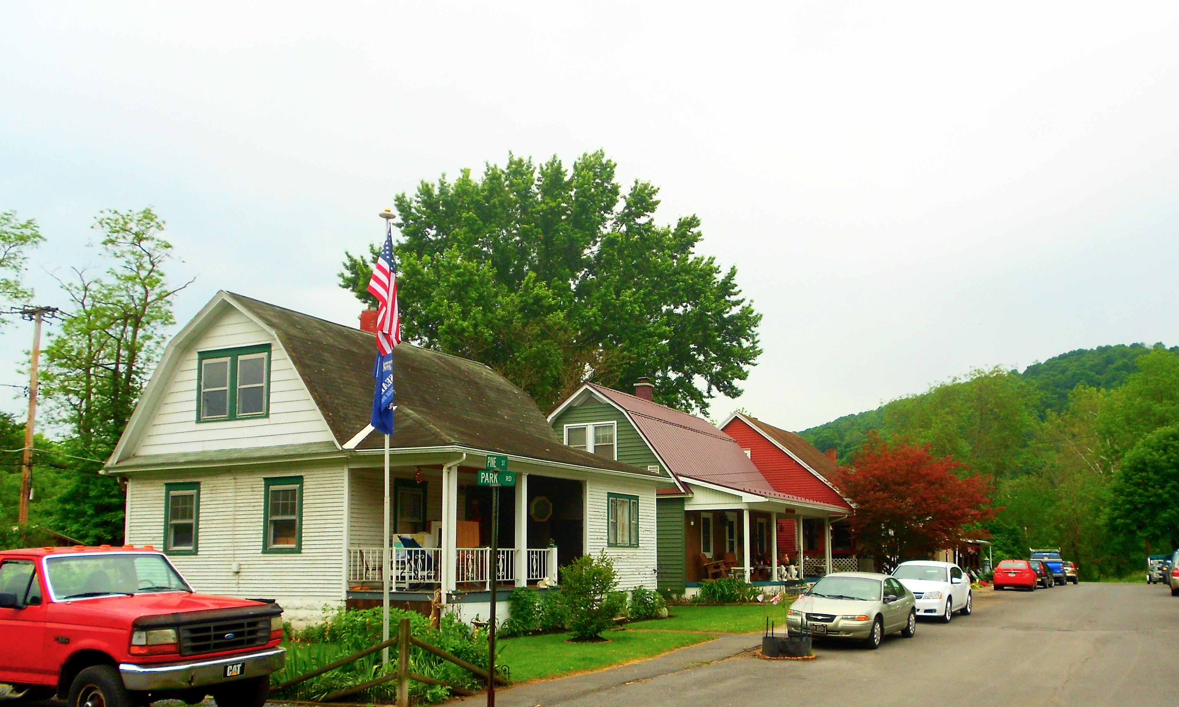 Houses in Kistler, Mifflin County, Pennsylvania. What you see here is about a tenth of the town.